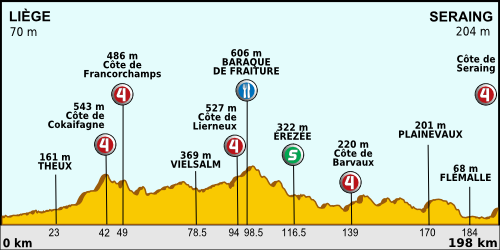 Profil of the 1st stage of the Tour de France 2012